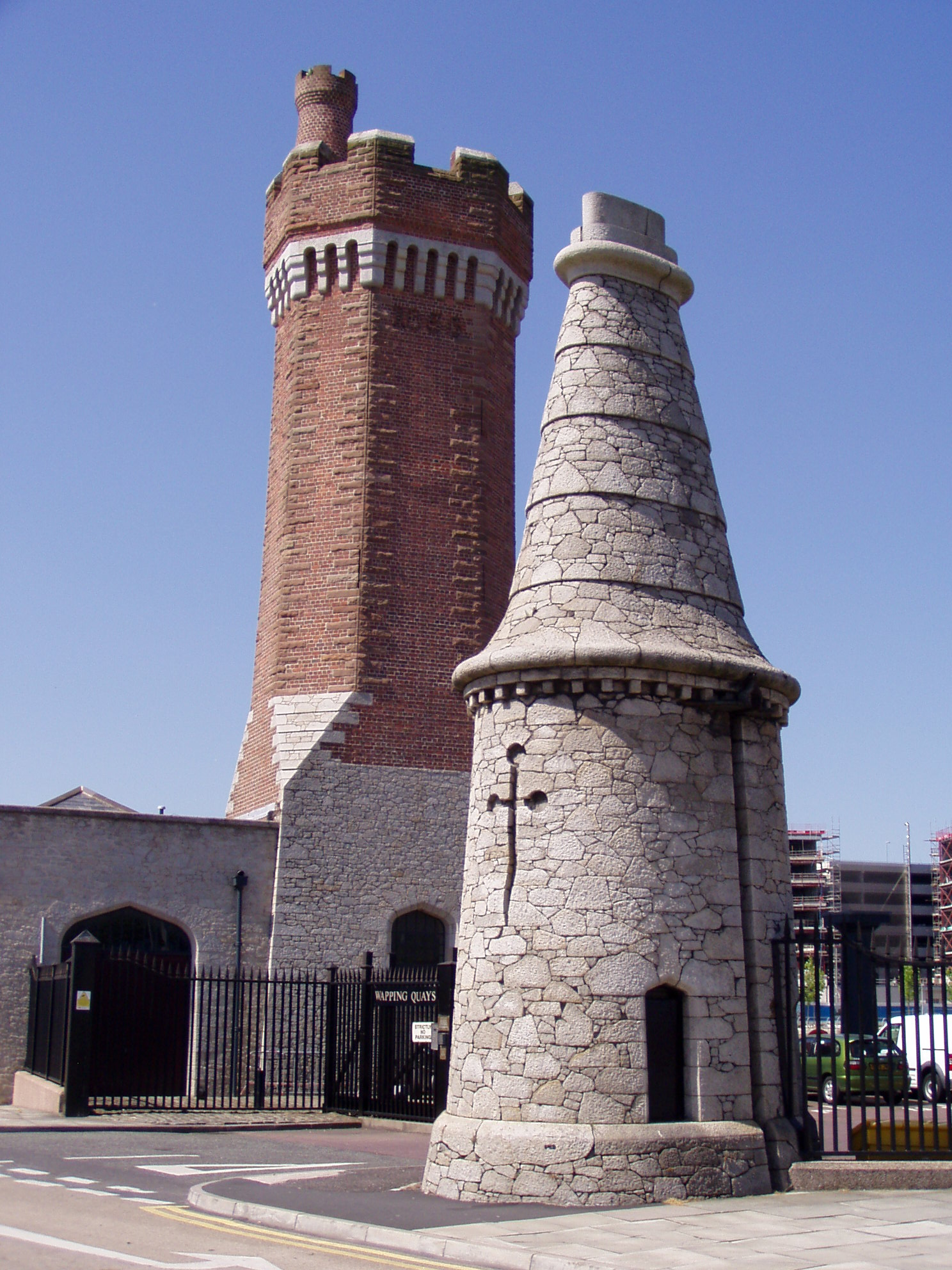 Hydraulic Tower and Gate Keepers Lodge at Wapping Dock, Liverool